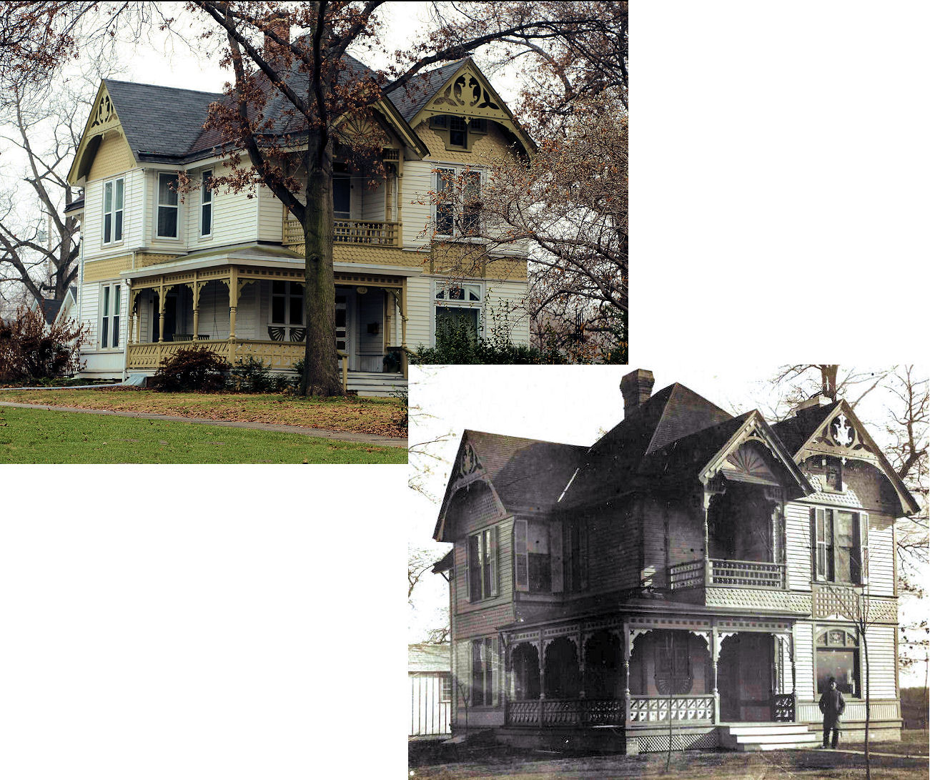 George Franklin Barber Cottage Souvenir No. 2 Design No, 38